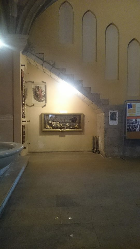 Situació de la capella de Sant Aleix dintre de l'església de Sant Joan de Valls.